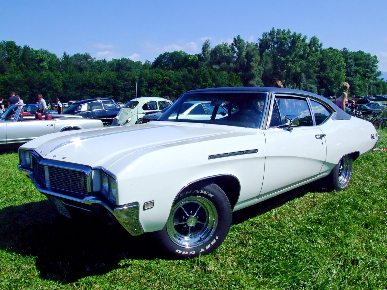 1968 Buick Special Deluxe Coupe Quelle: selbst fotografiert, 06/2007 Fotograf: Späth Chr.